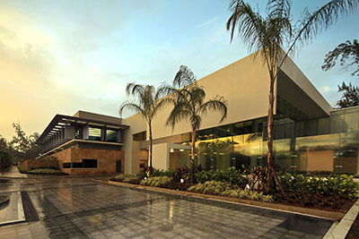 Copyright © 2018 Max Toro Mattei. Nightview of the Library of the Supreme Court of Puerto Rico (San Juan, PR). Designed by Segundo Cardona FAIA of SCF Architects.